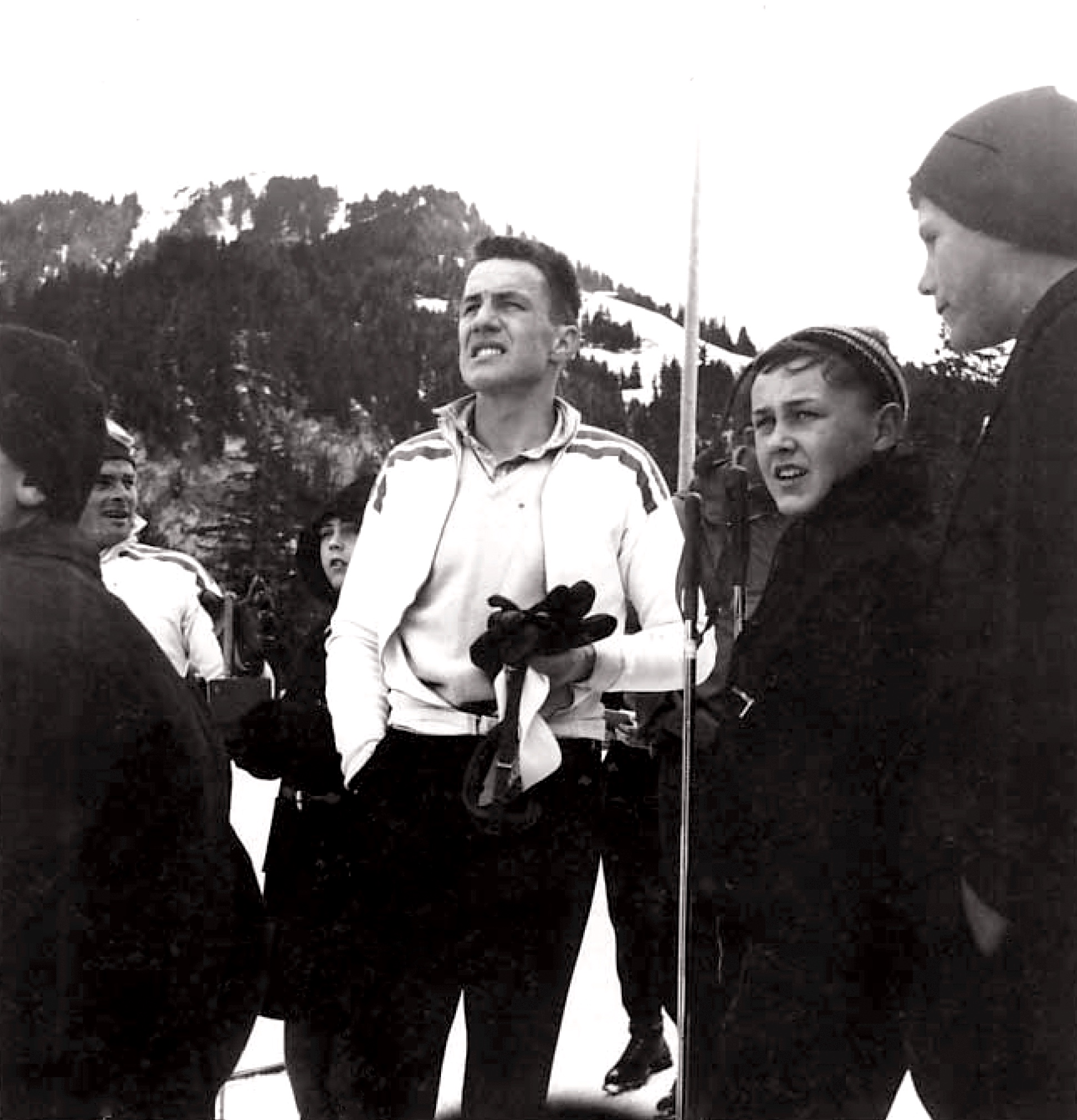 Roger Staub